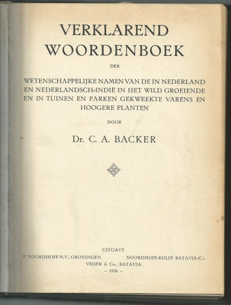 Photo cover page dictionary